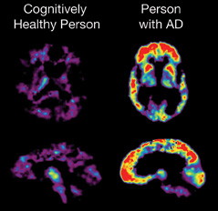 The red and yellow colors indicate that Pittsburgh Compound B (PiB) uptake is higher in the brain of the person with AD than in the cognitively healthy person. PiB binds to beta-amyloid plaques in the brain, and it can be imaged using PET scans.